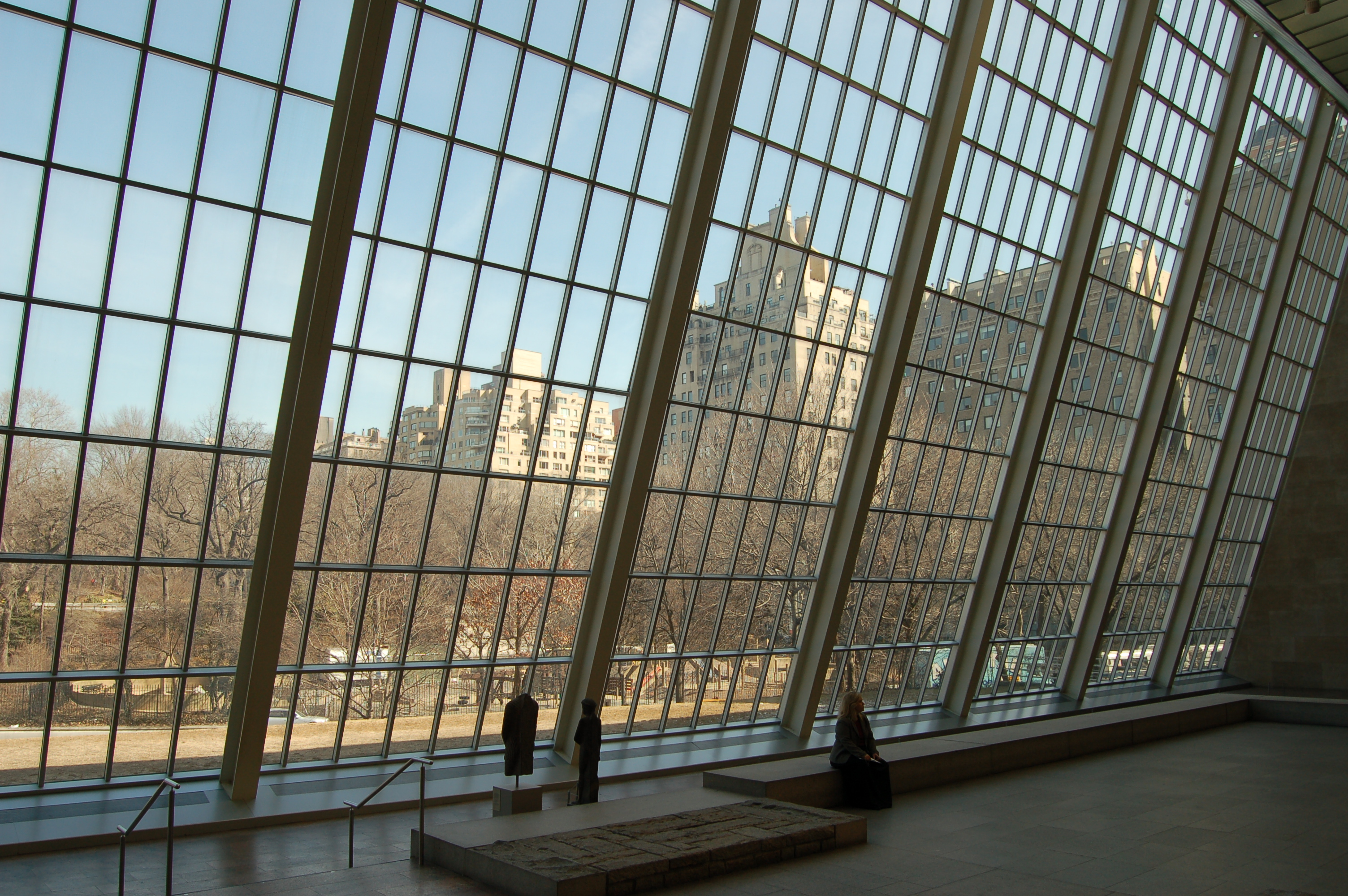 View of Central Park looking West from the Metropolitan Museum of Art